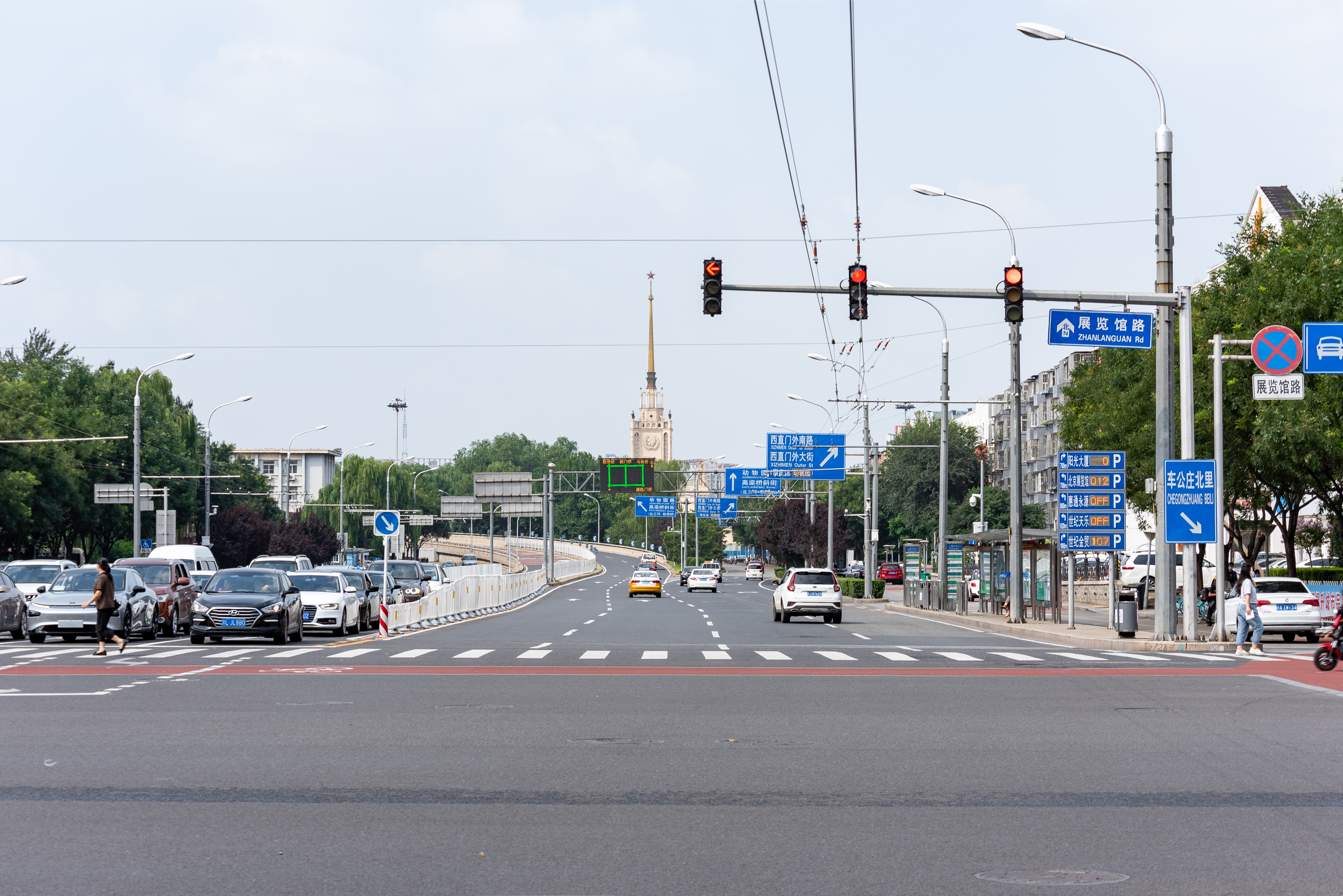 Soviet star on the front.